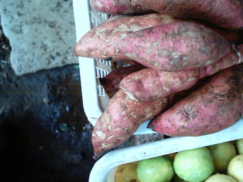 Sweet potatoes.